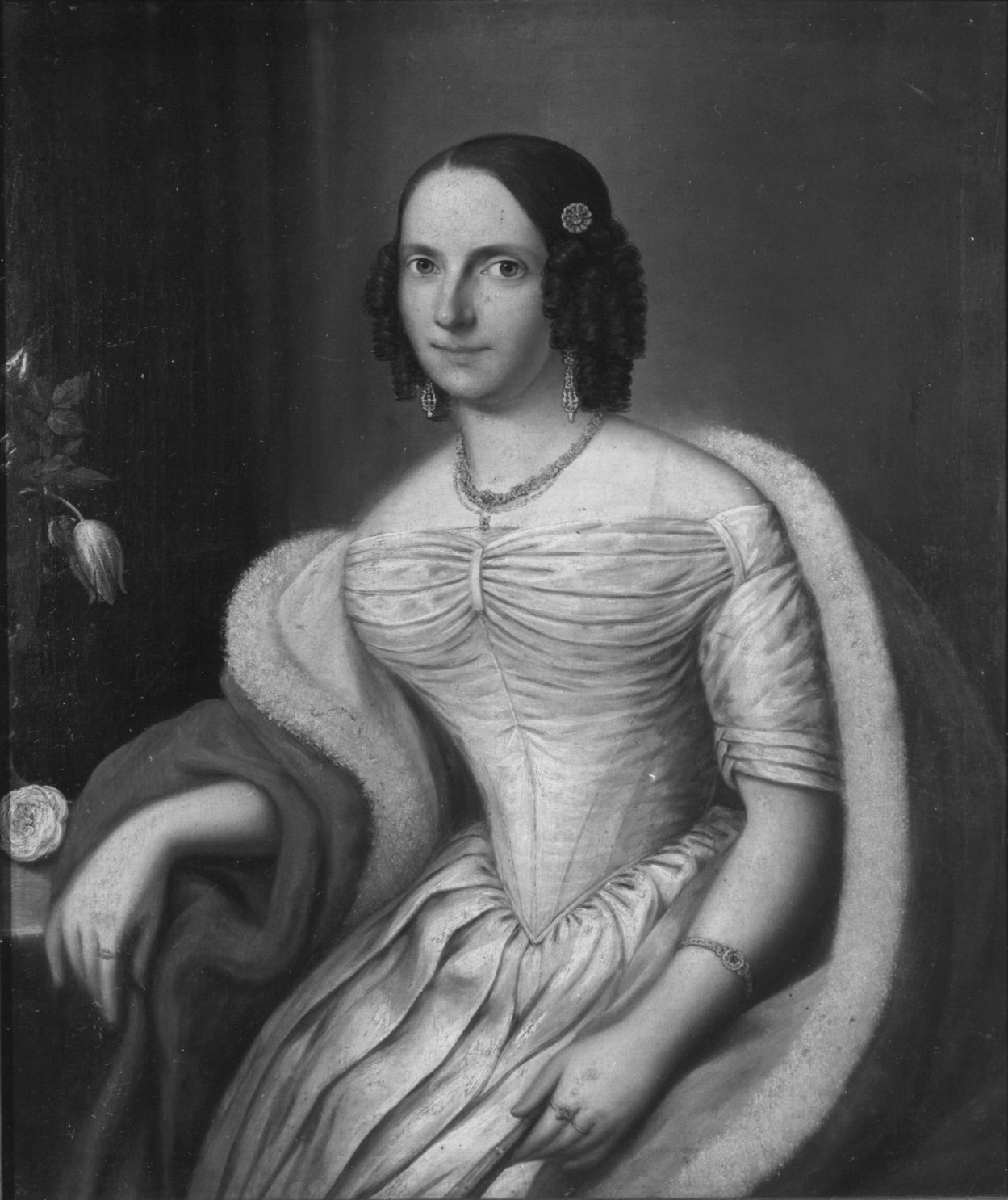 Adeline Louise Werligh, mother of Nina Grieg.